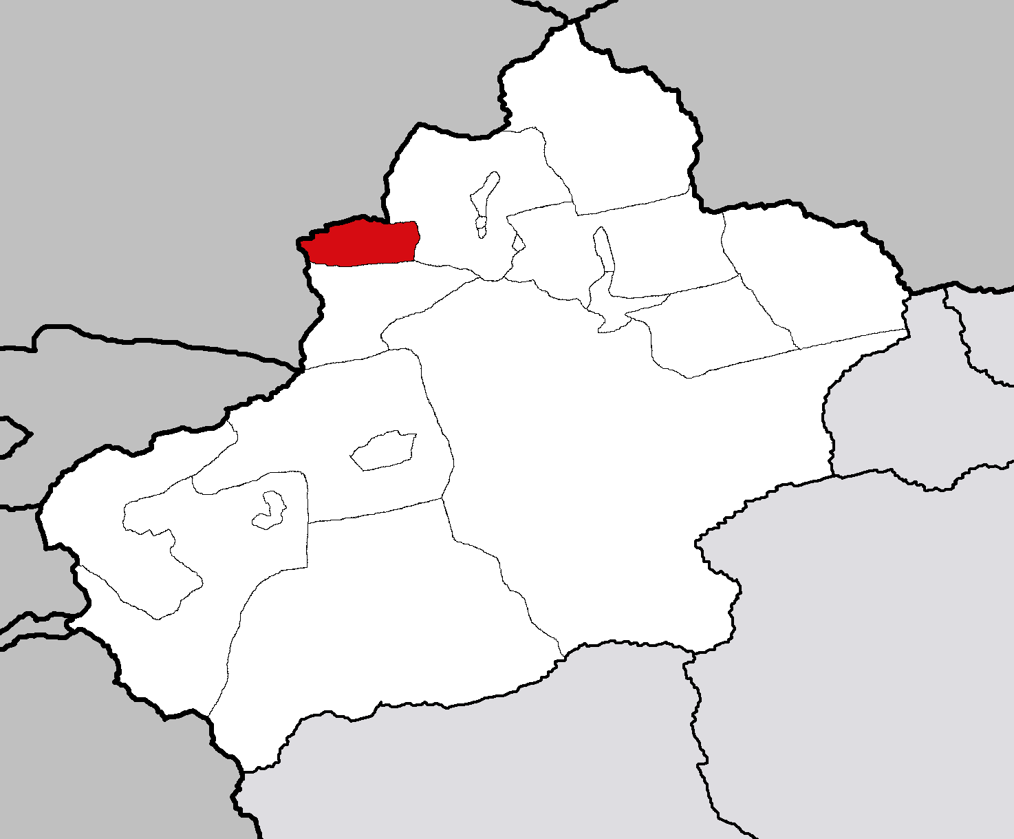 Maps of Xinjiang Uygur Autonomous Region of China